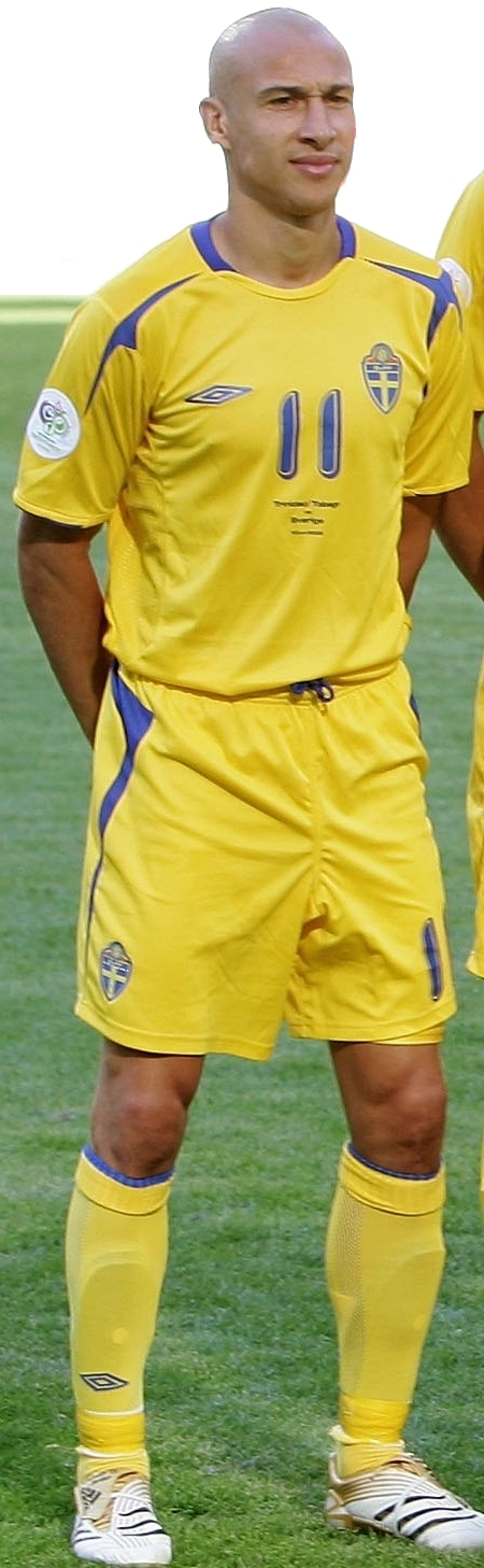 Henrik Larsson (Swedish national football team) before the FIFA World Cup match against Trinidad and Tobago on June 10, 2006